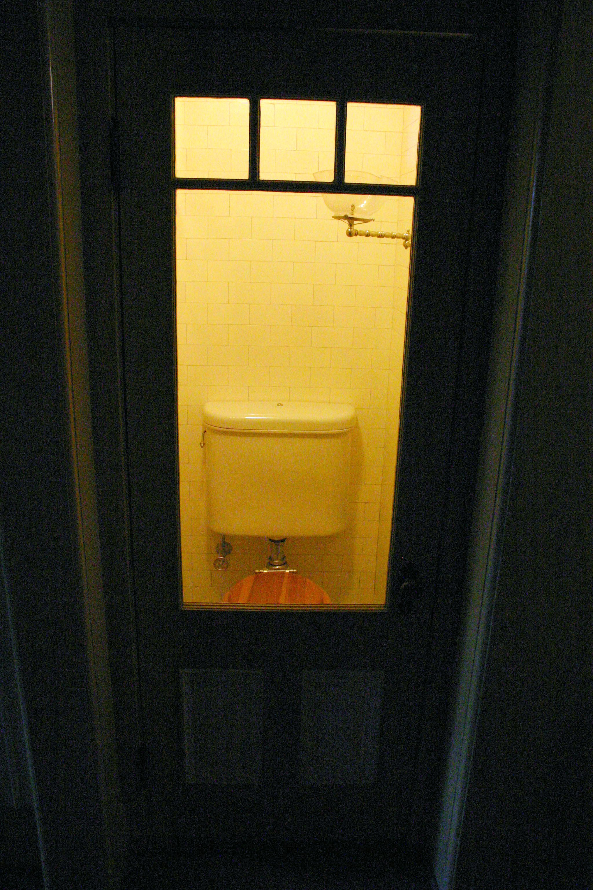 The Winchester widow had the doors of all the toilets replaced with glass, so nothing untoward or dangerous could happen unnoticed in there.